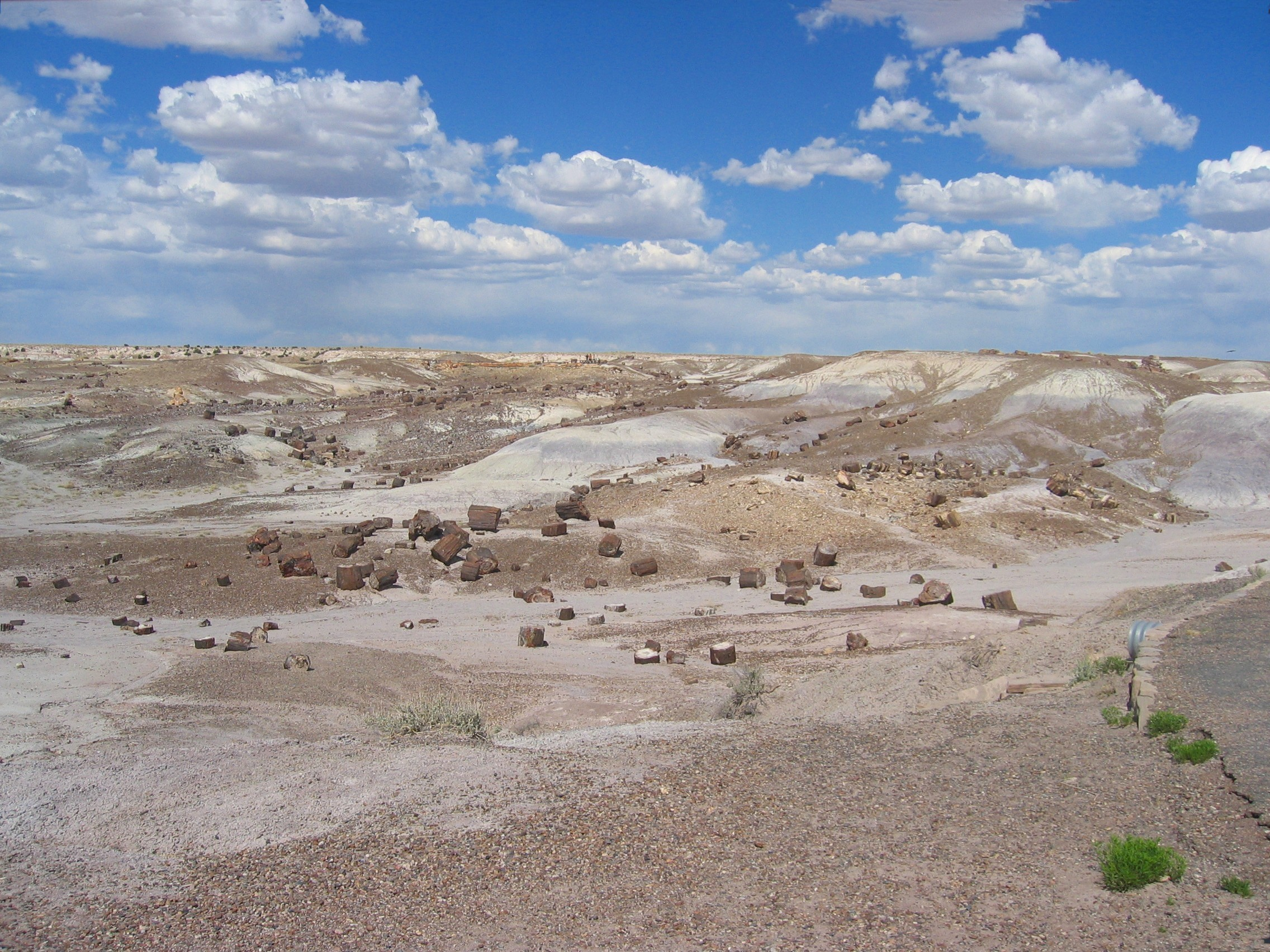 Photo of Petrified Wood in Petrified Forest National Park, Arizona, USA.